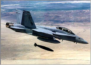 An US Marine Corp F/A-18D dropping bombs